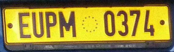 License plate of the European Union Police Mission in Bosnia and Herzegovina.